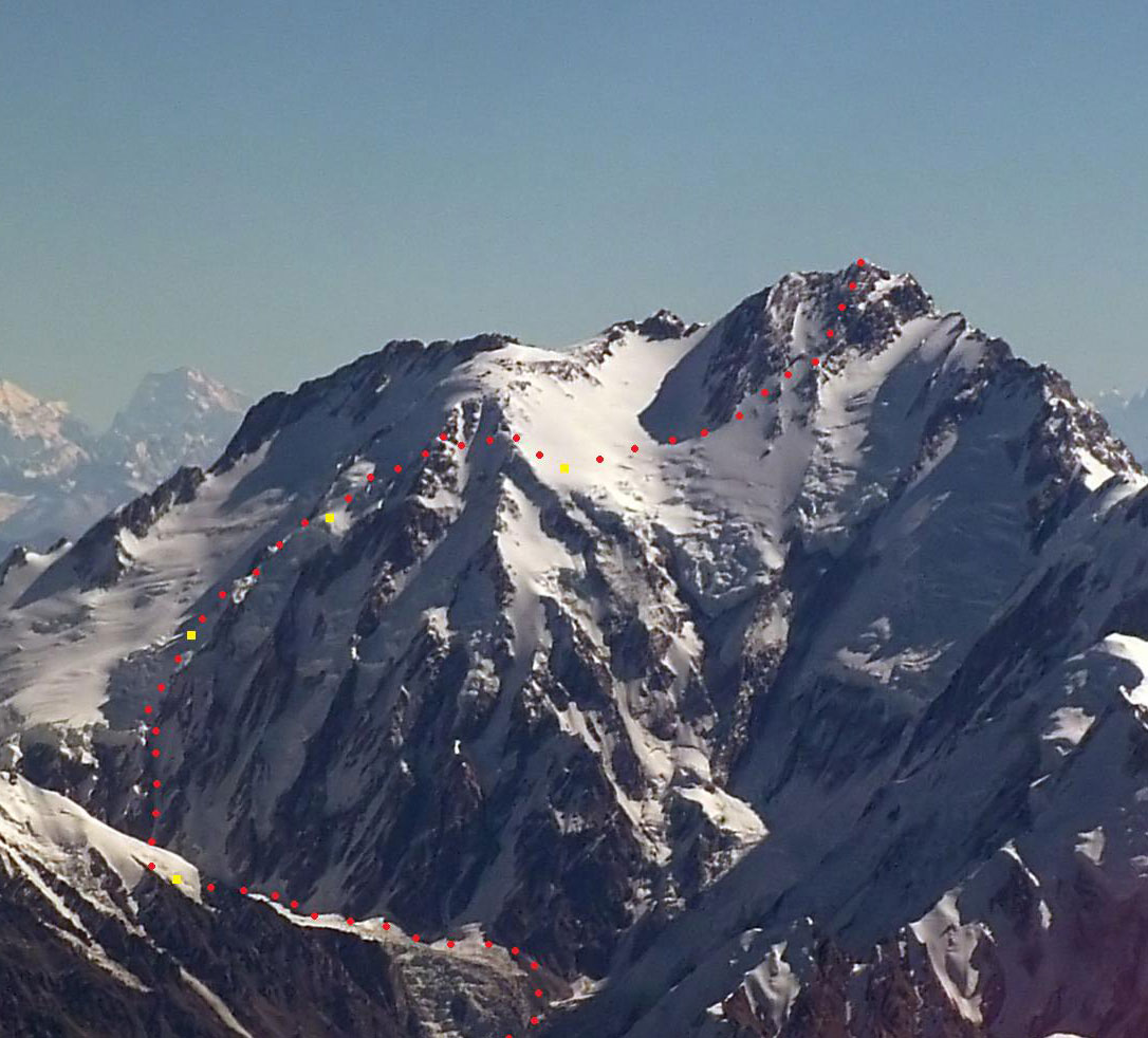 Nanga Parbat - Austro Canadian North West Buttress